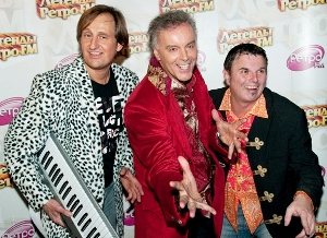 Austrian Europop band Joy at the show "Legends of Retro FM 2010"